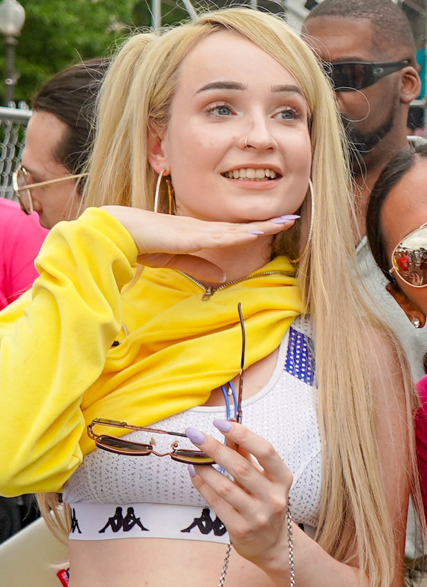 2018.06.10 Capital Pride Behind the Scenes and Closing with Sony A7III, Washington, DC USA03324